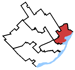 A map of Beauport—Limoilou in relation to other Quebec City federal ridings under the 2013 representation order.